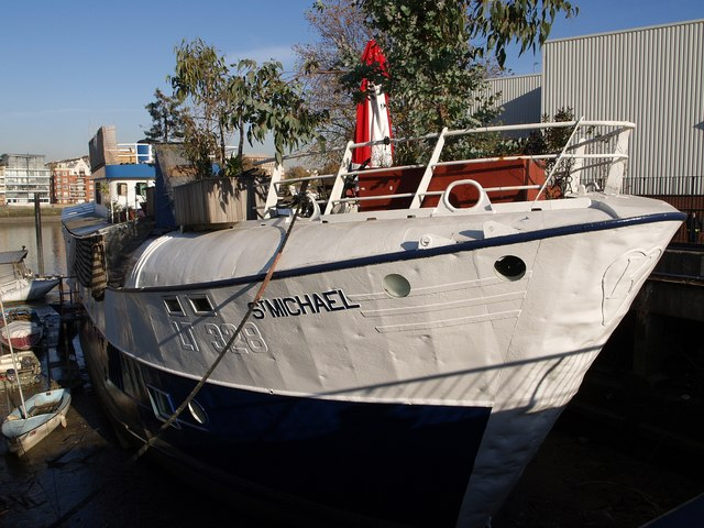 Houseboat, Nine Elms The St. Michael, a 1974 cutter seen in this at its registered port of Lowestoft, now resides in this dock by the Thames. The unit on the right sits at the side of the Tideway Industrial Estate where it meets Nine Elms Lane.